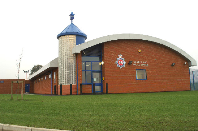 The Blue Lamp.